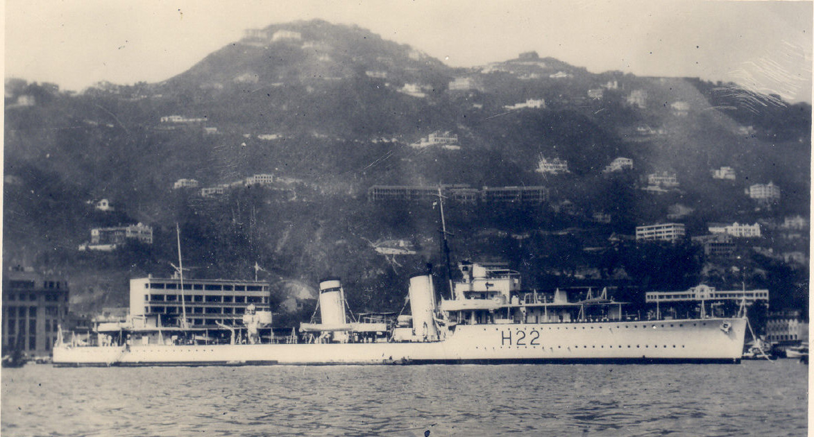 HMS Diamond (H22)